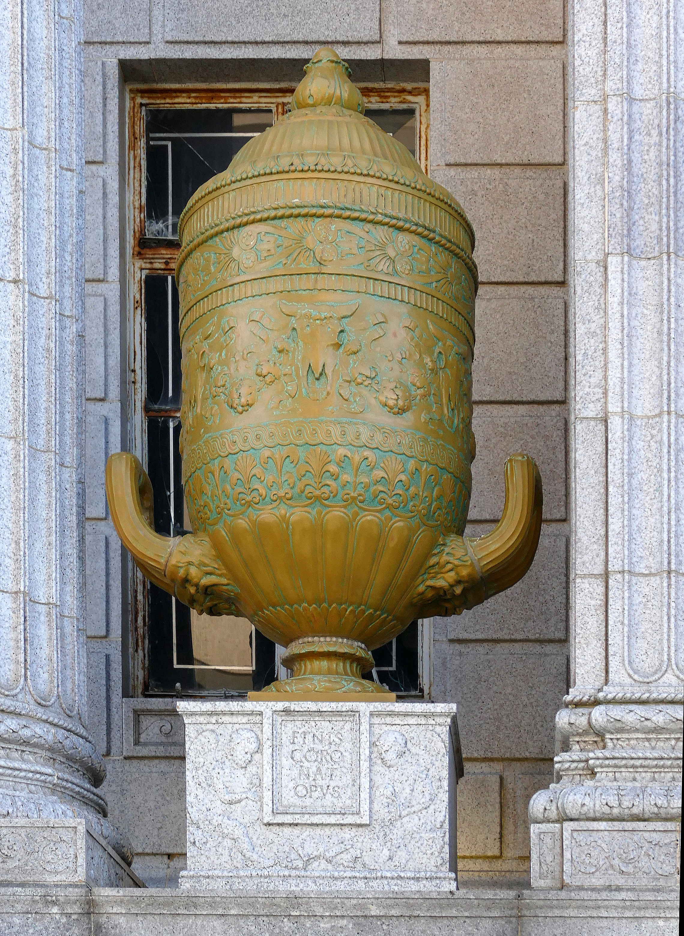 Organized in 1889 by W. L. Moody and Co., a private bank. City National Bank was later called the Moody National Bank.